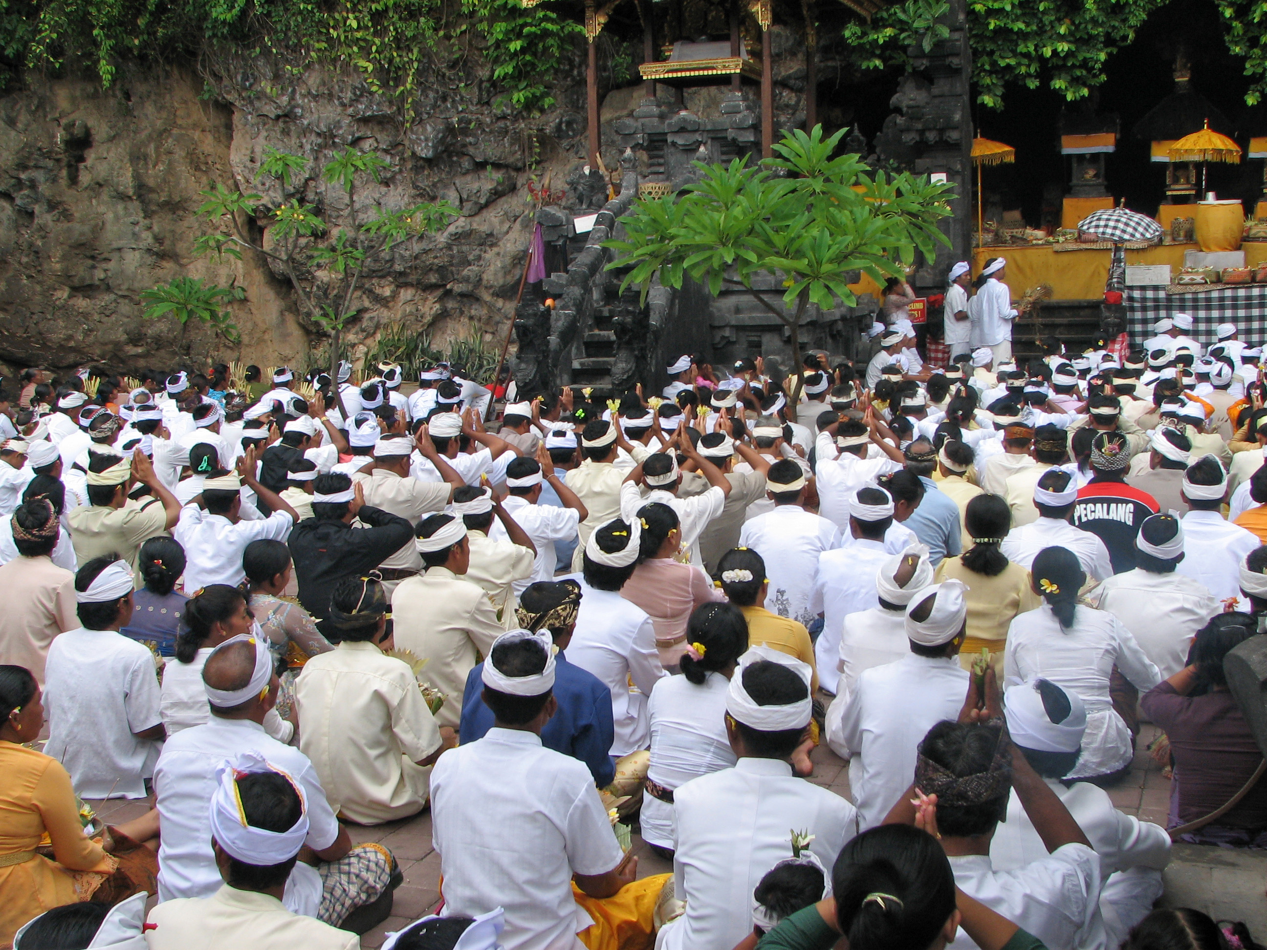 Ceremonie in Goa Lawah Temple (Bali island, Indonesia)